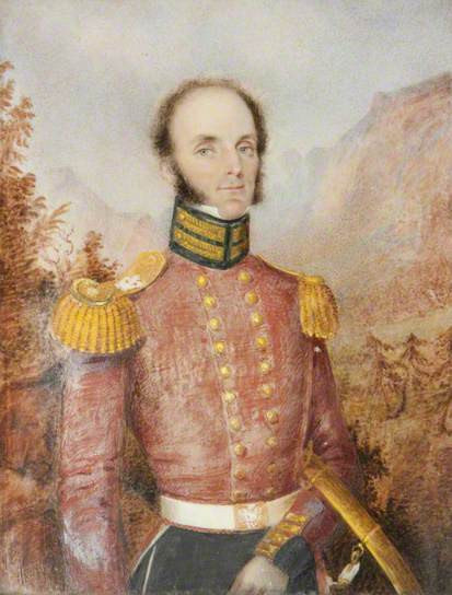 Portrait of Colonel Henry William Breton